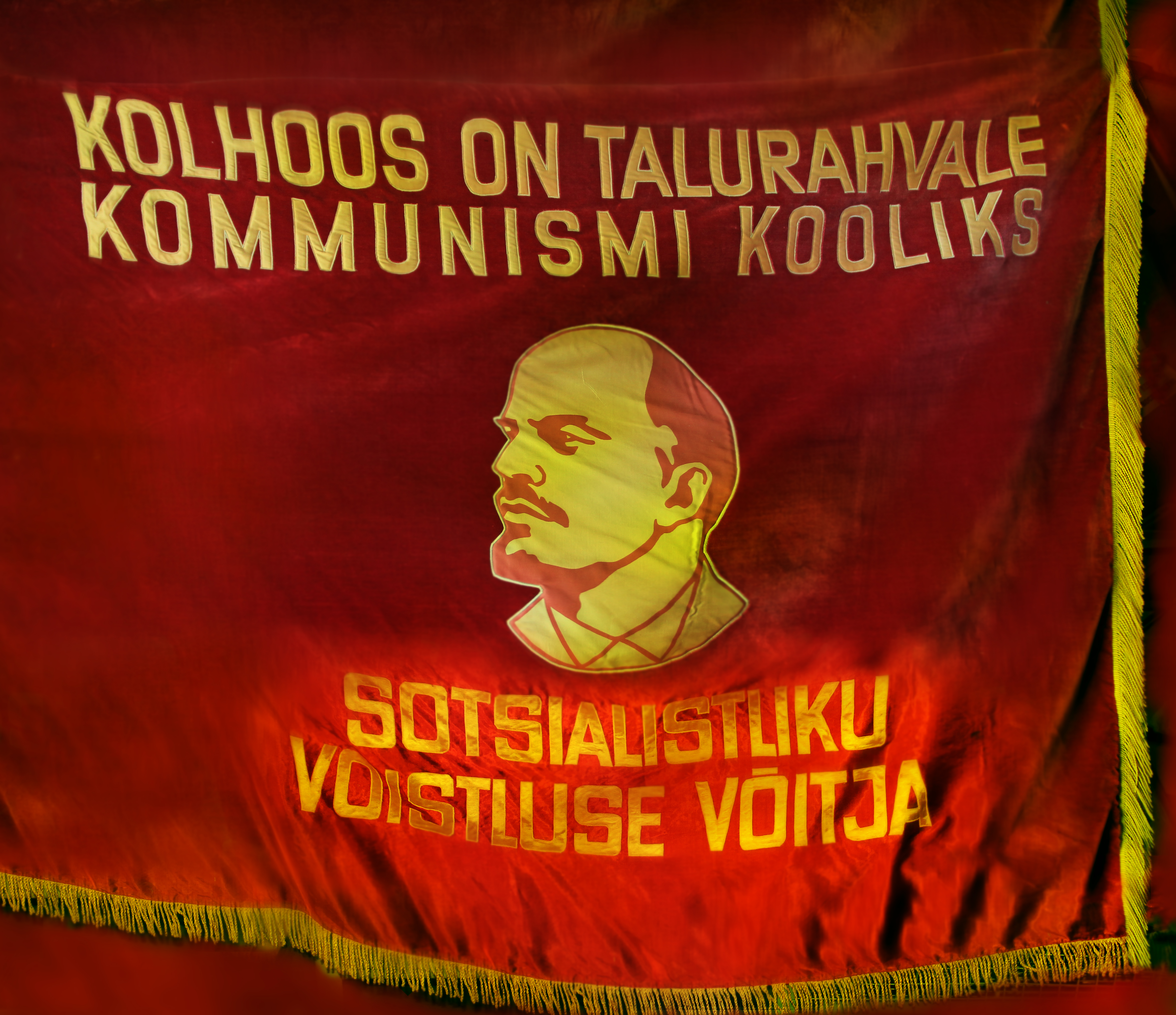 Socialist competition